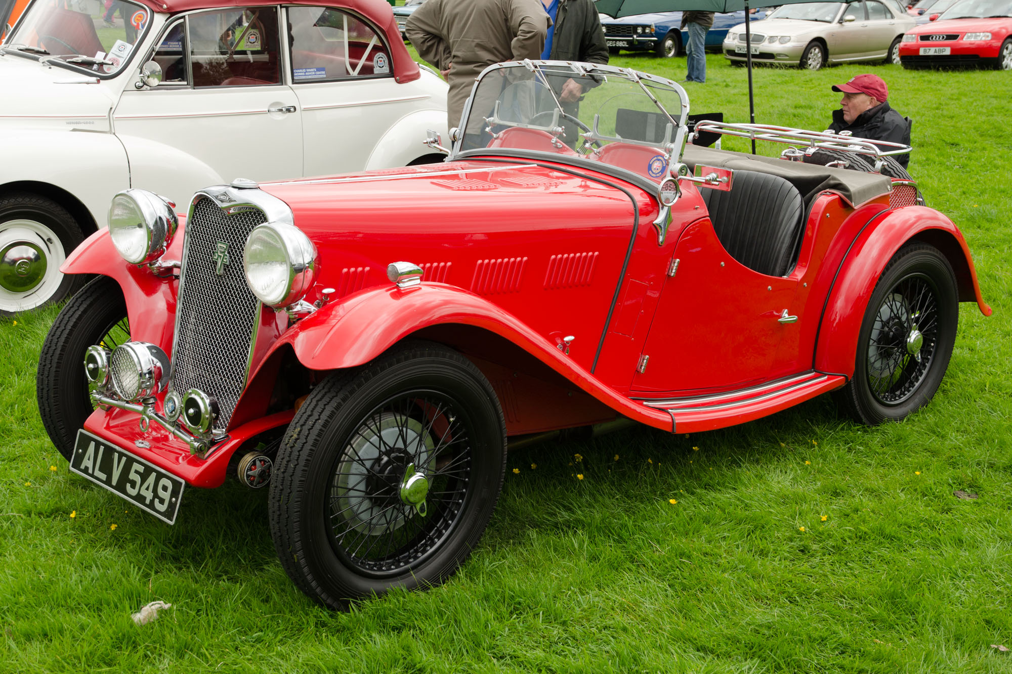 1935 Singer 9 Le Mans (DVLA) first registered 10 July 1935 Capesthorne Hall Classic Car Show 25/05/2014